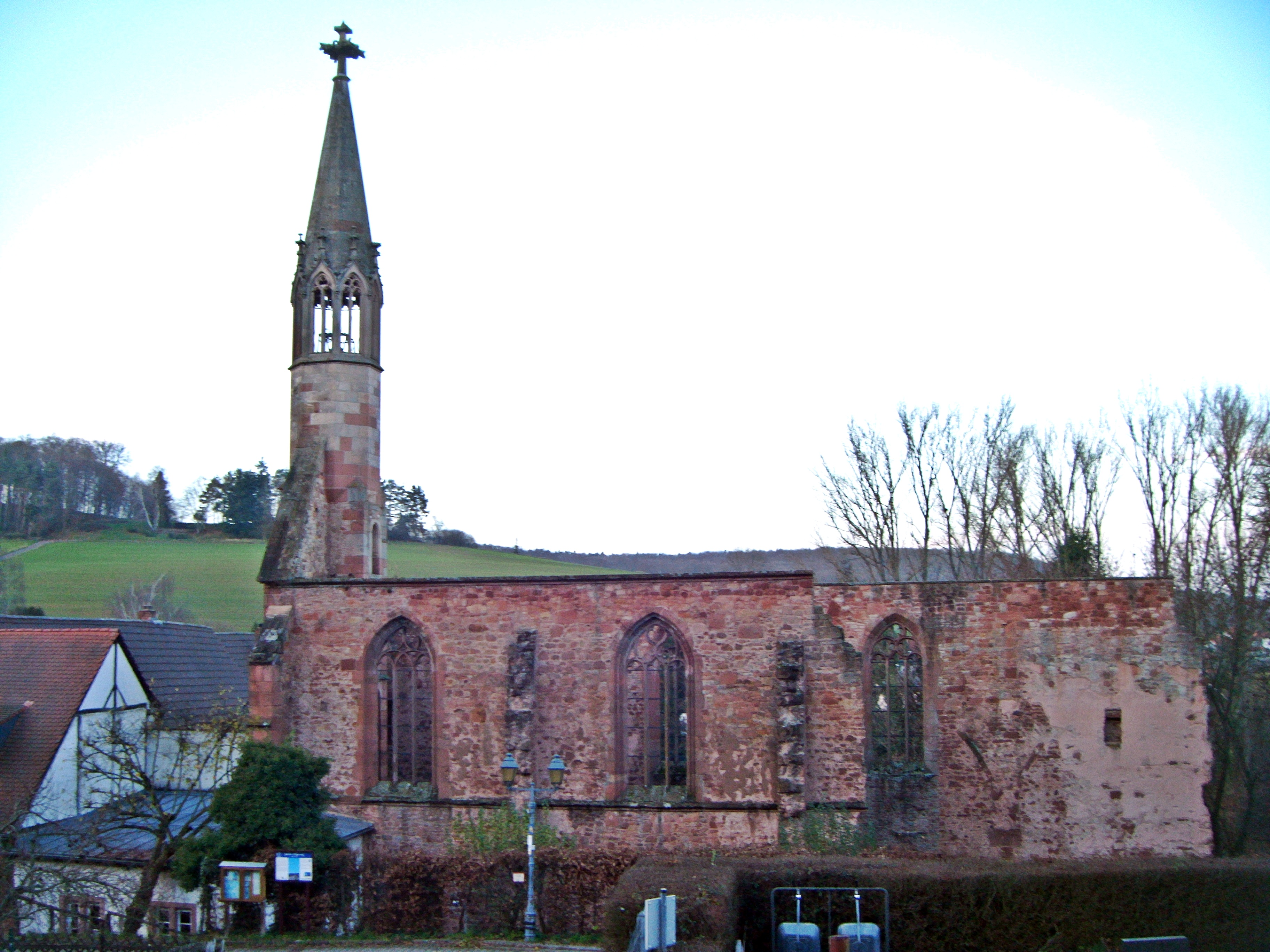 Kloster Rosenthal, Kirchenruine von Süden